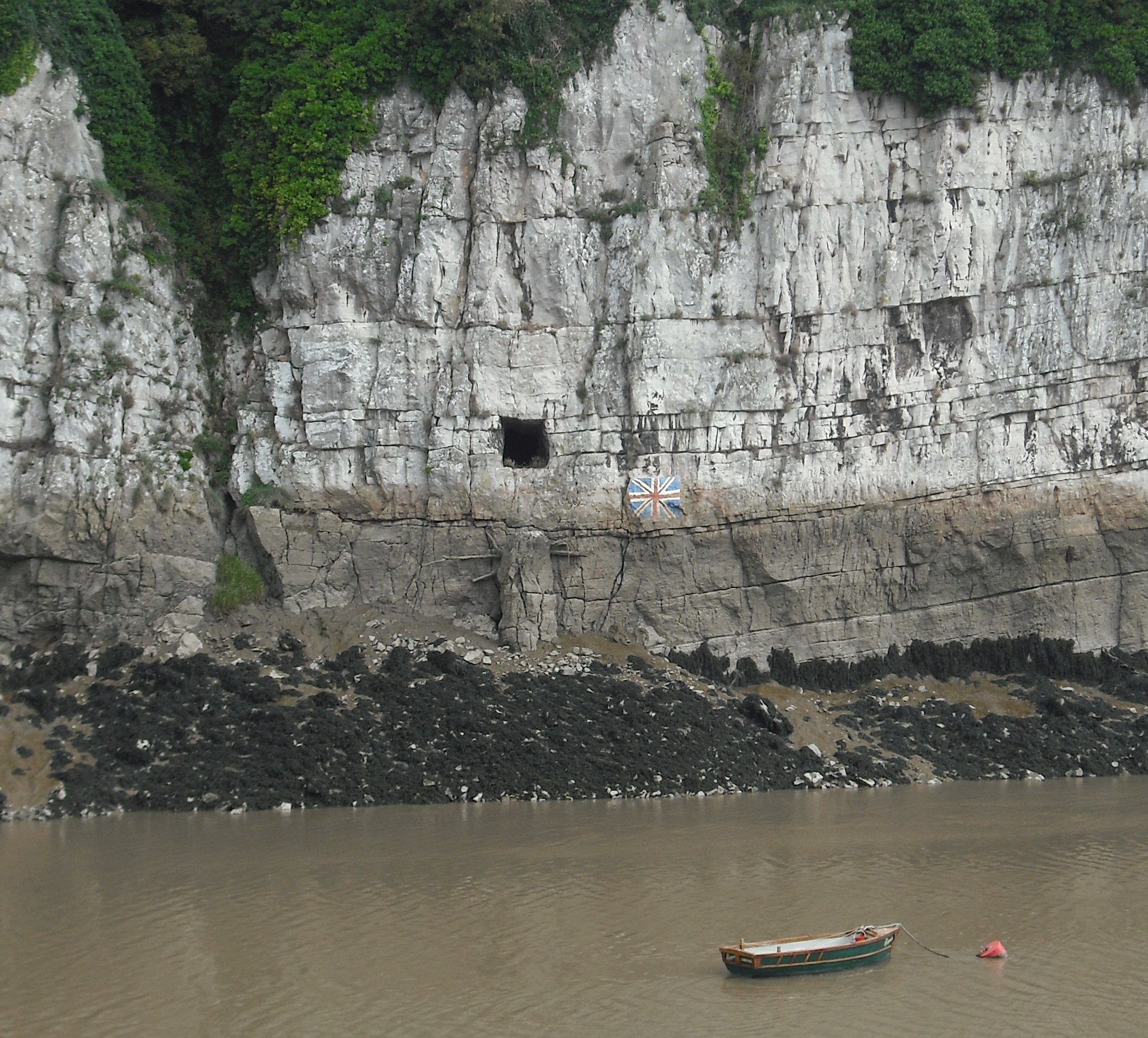 The Gloucester Hole in Chepstow at low tide.